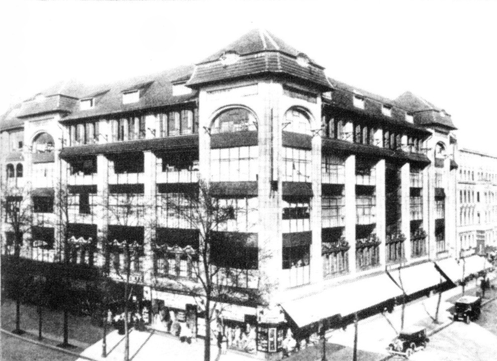 Warehouse Jandorf, Wilmersdorfer Straße / Pestalozzistraße, Berlin-Charlottenburg